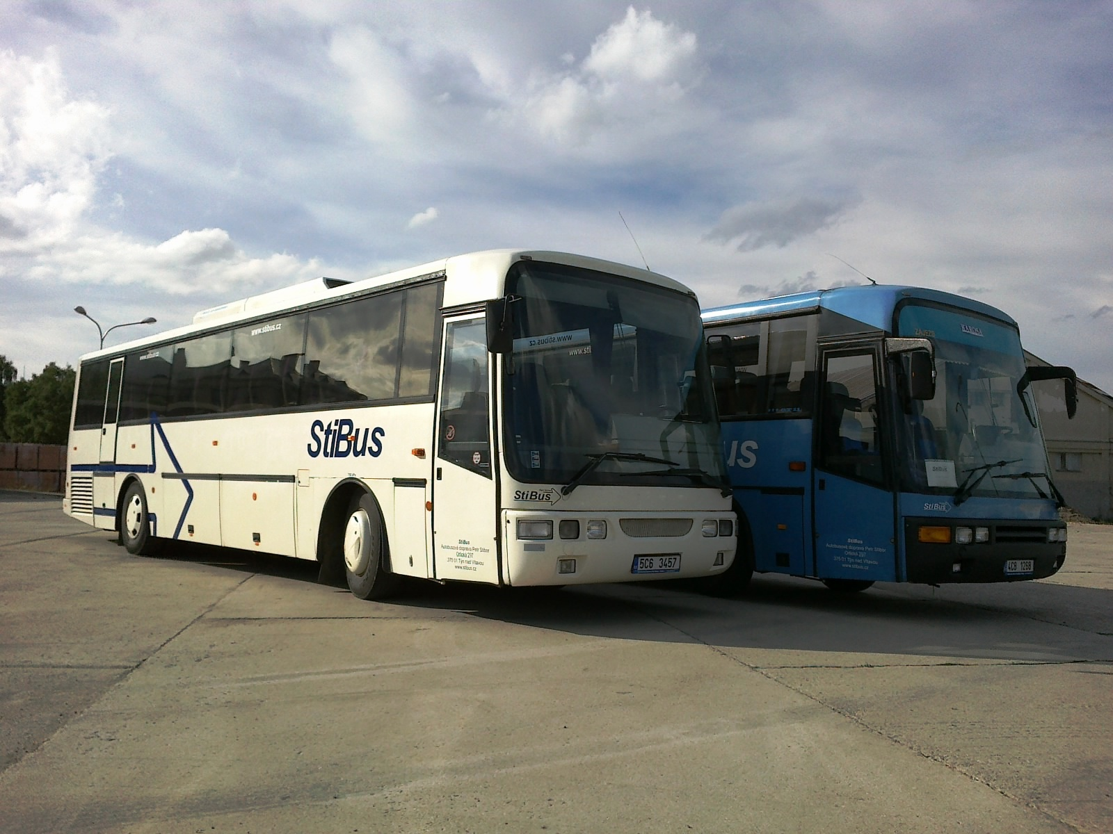 Buses Karosa GT 11